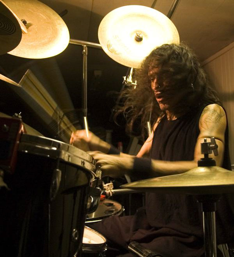 Pete Sandoval practising.